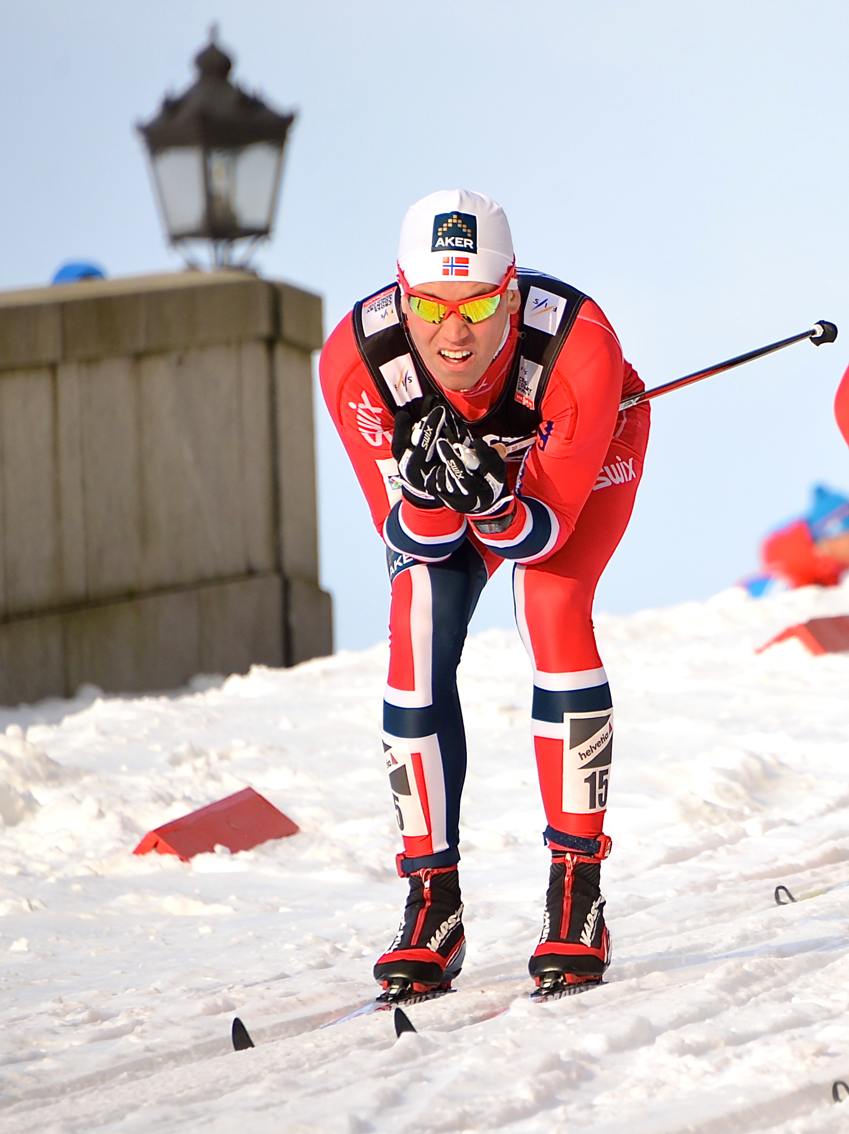 Pål Golberg at Royal Palace Sprint in Stockholm March 20, 2013